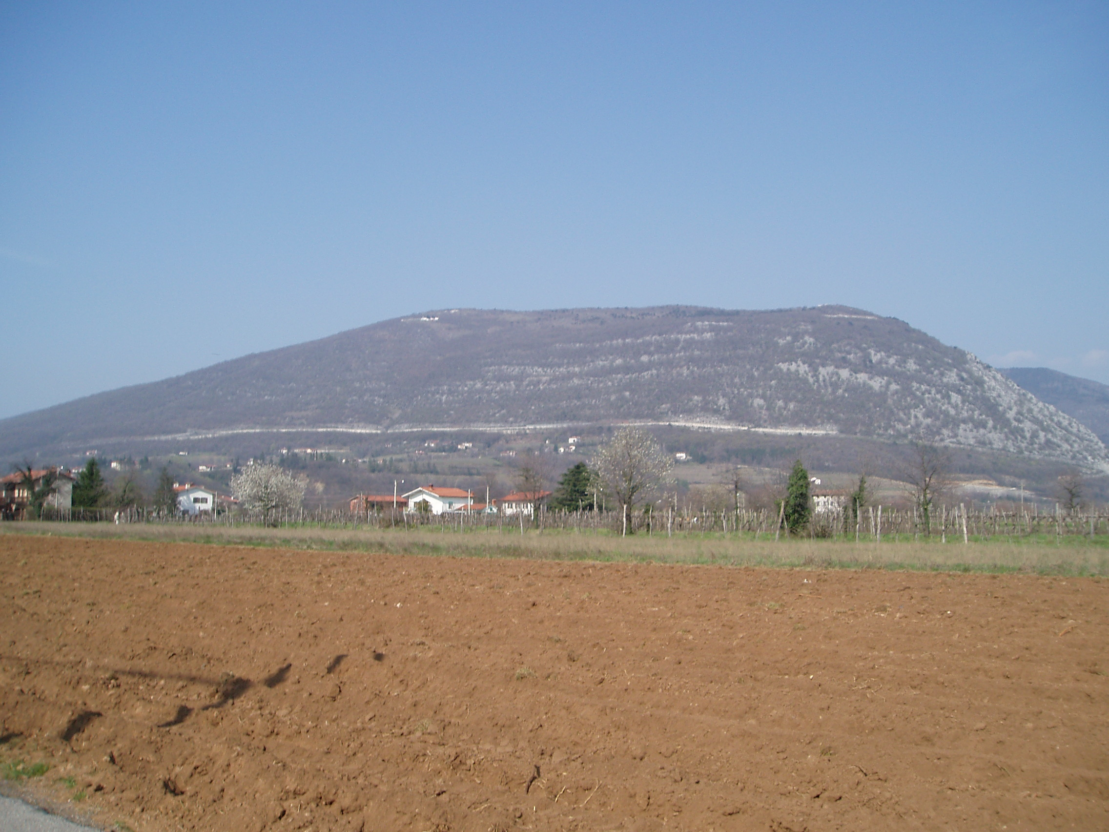 hill Sabotino